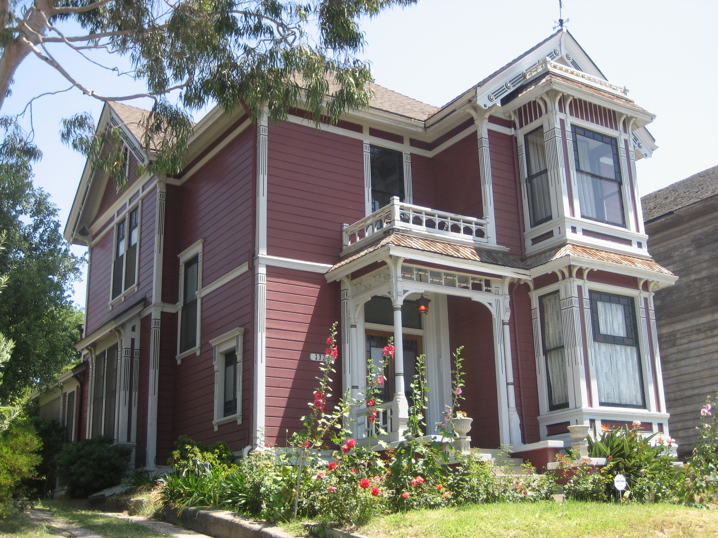 Eastlake Stick style Victorian house at 1329 Carroll Avenue — in the Angelino Heights neighborhood of the Echo Park district, Los Angeles. The "Charmed House" — used for filming in the "Charmed" TV series.